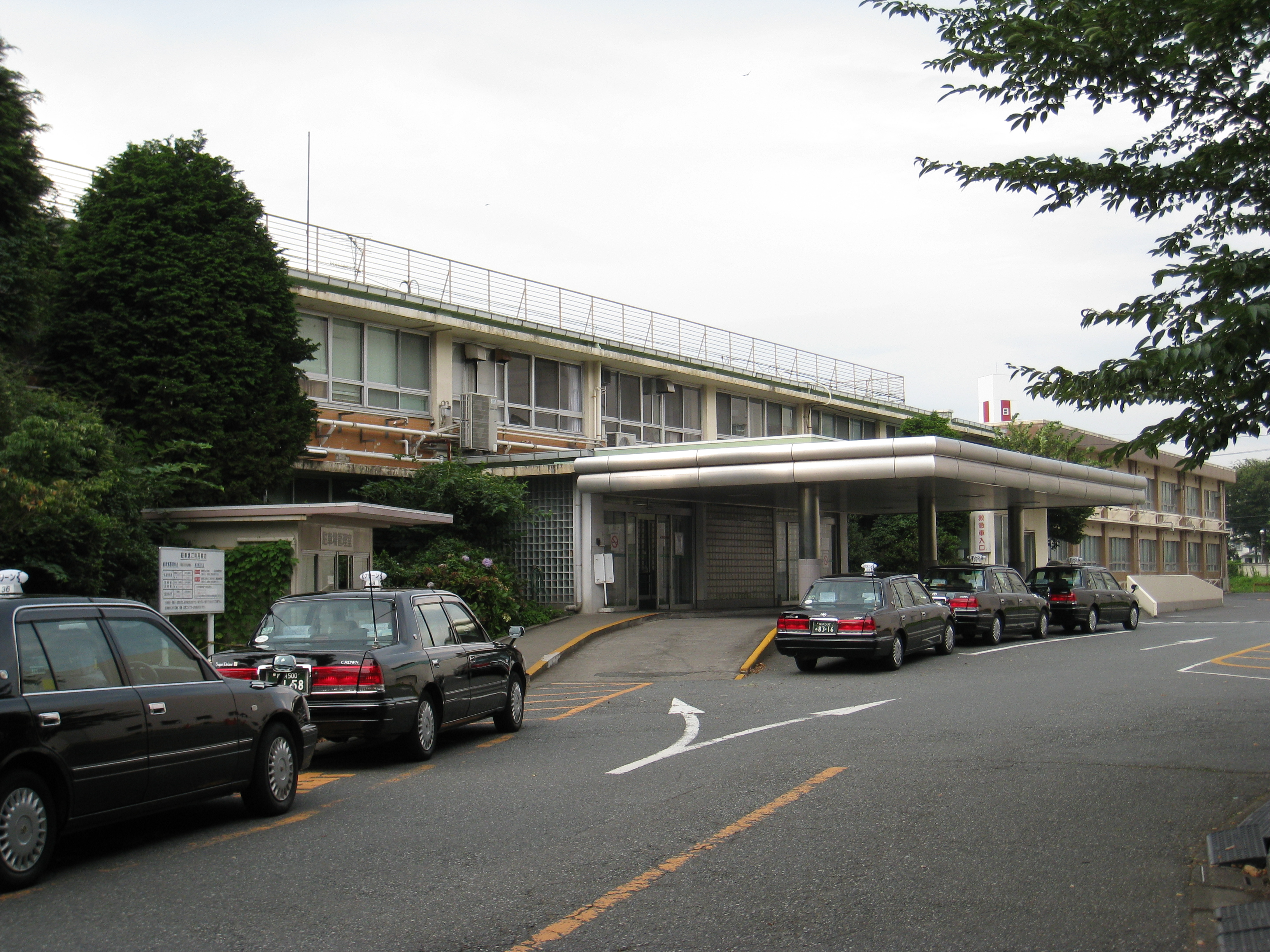 Yokohama National Hospital